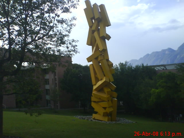 The main sculpture at the University of Monterrey (UdeM) in Monterrey, Mexico.